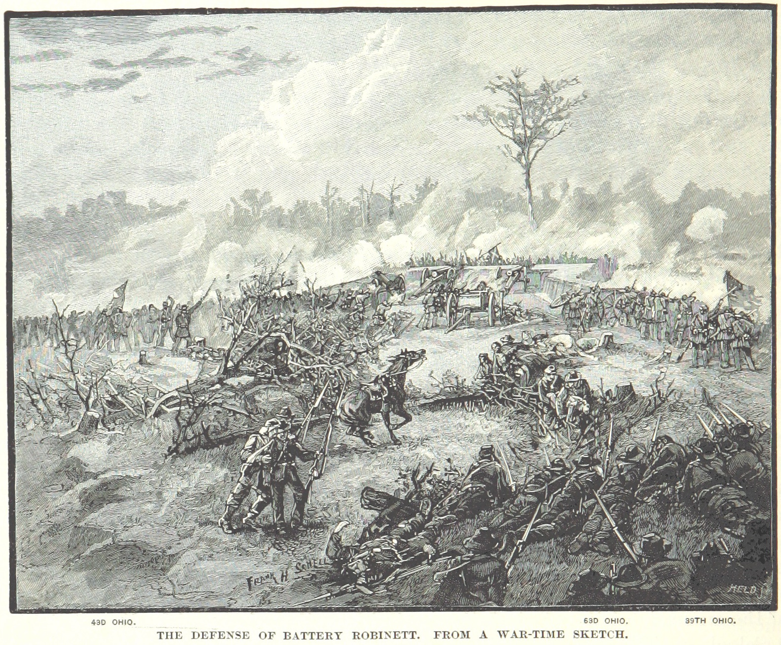 The defense of Battery Robinett during the Second Battle of Corinth